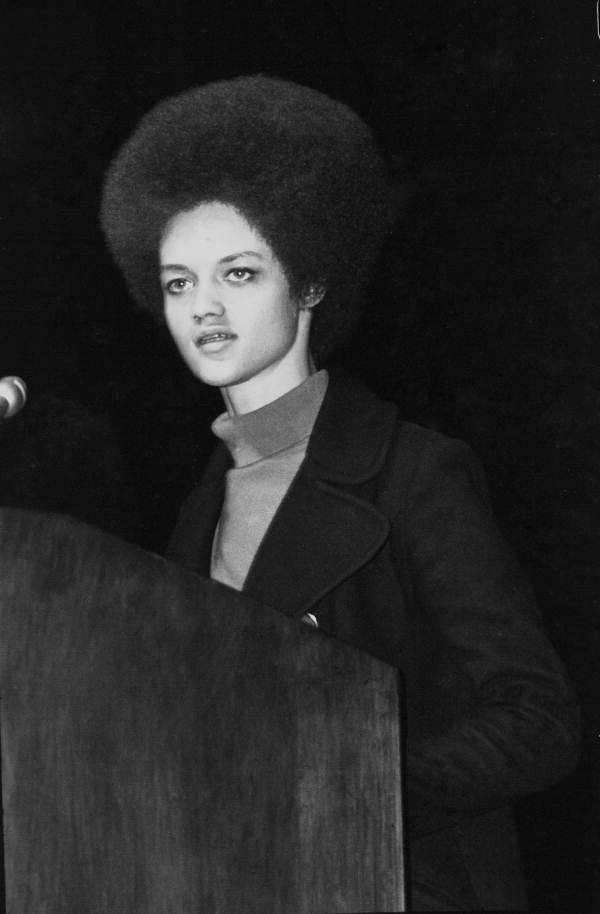 Kathleen Cleaver delivering a speech in Ruby Diamond Auditorium at FSU - Tallahassee, Florida. November 23, 1971.